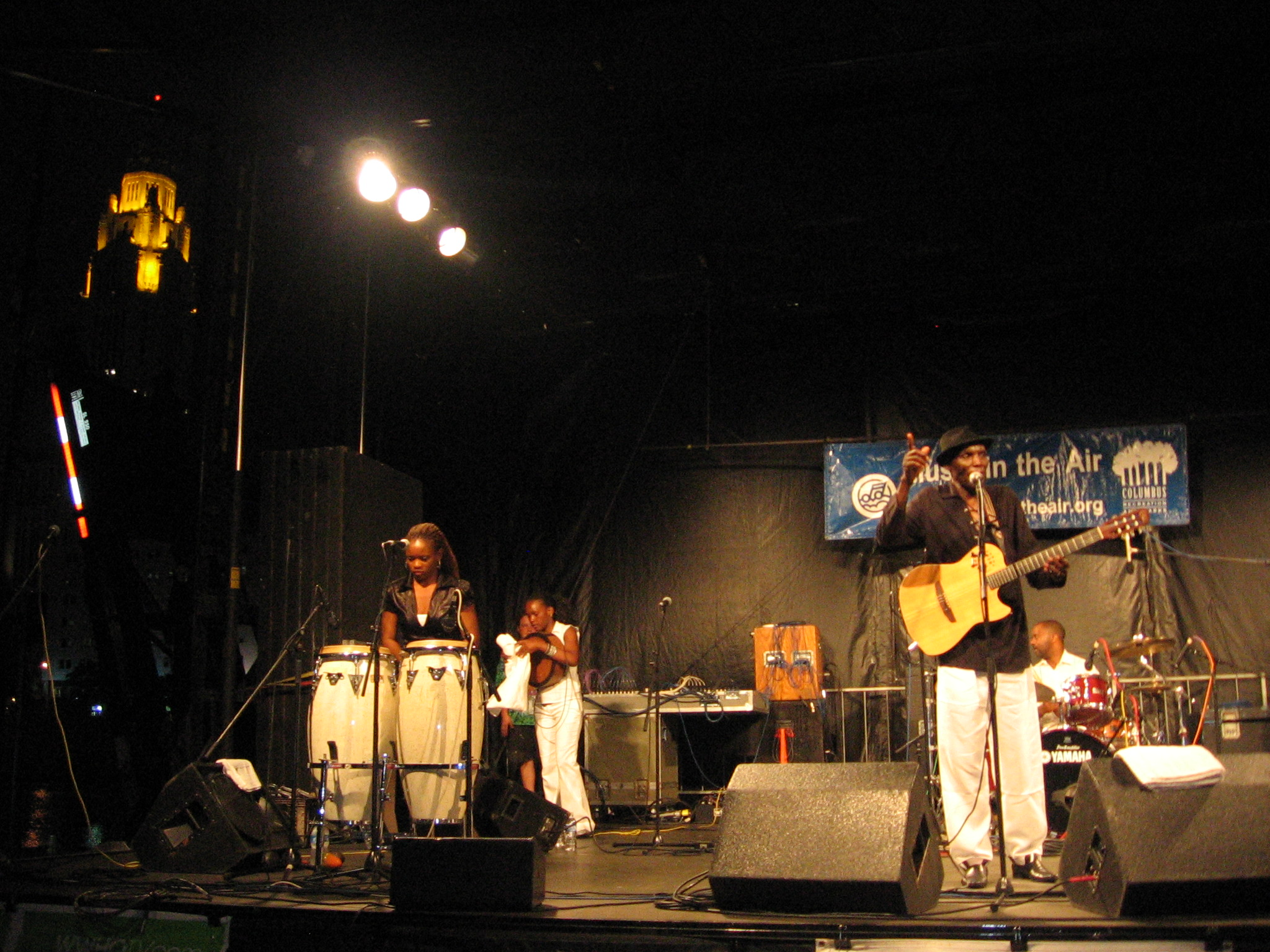 Oliver Mtukudzi and his band perform at Genoa Park in Columbus, Ohio on August 1, 2008.